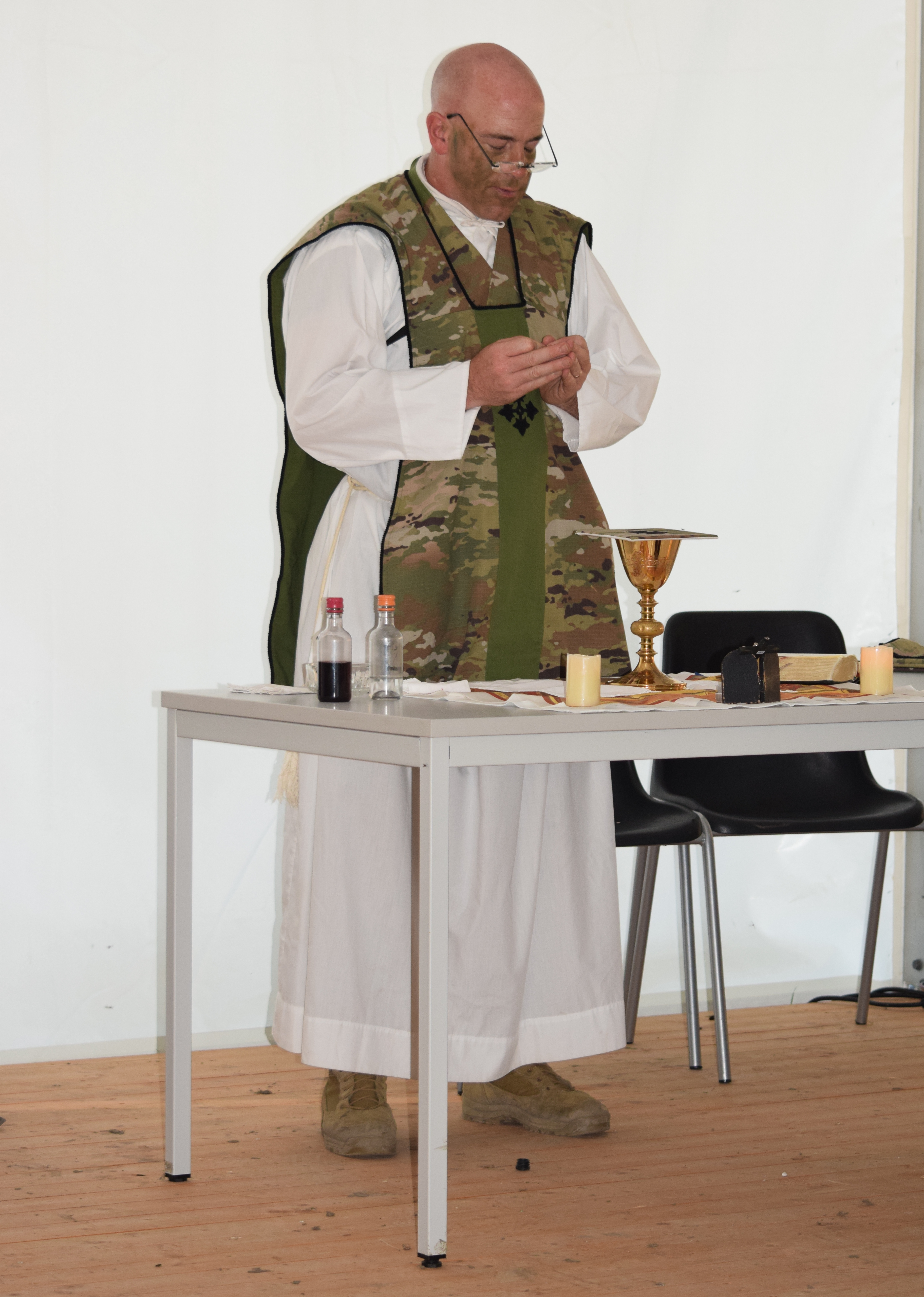 MIHAESTI ROMANIA, July 13, 2017 – Chaplain Maj. Kevin Peek, chaplain of the Georgia Army National Guard’s 648th Maneuver Enhancement Brigade provides religious services for Soldiers participating in Exercise Saber Guardian in Valcea, Romania. Exercise Saber Guardian is a multi-national exercise involving more than 25,000 service members from more than 20 nations. Georgia Army National Guard photo by Capt. William Carraway / released